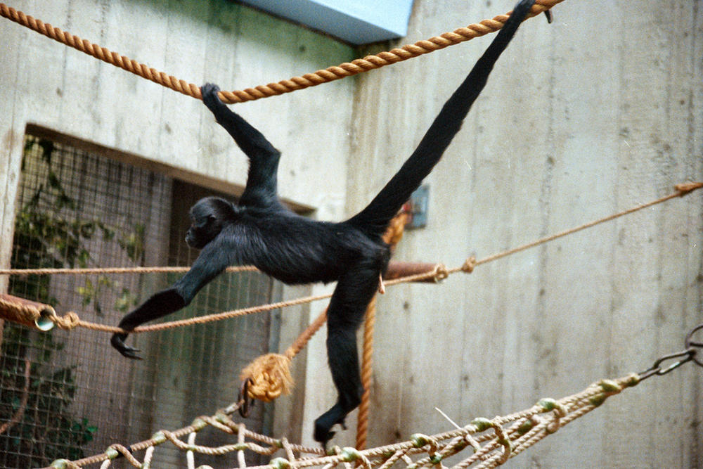 Brown-headed Spider Monkey (Ateles fusciceps robustus)